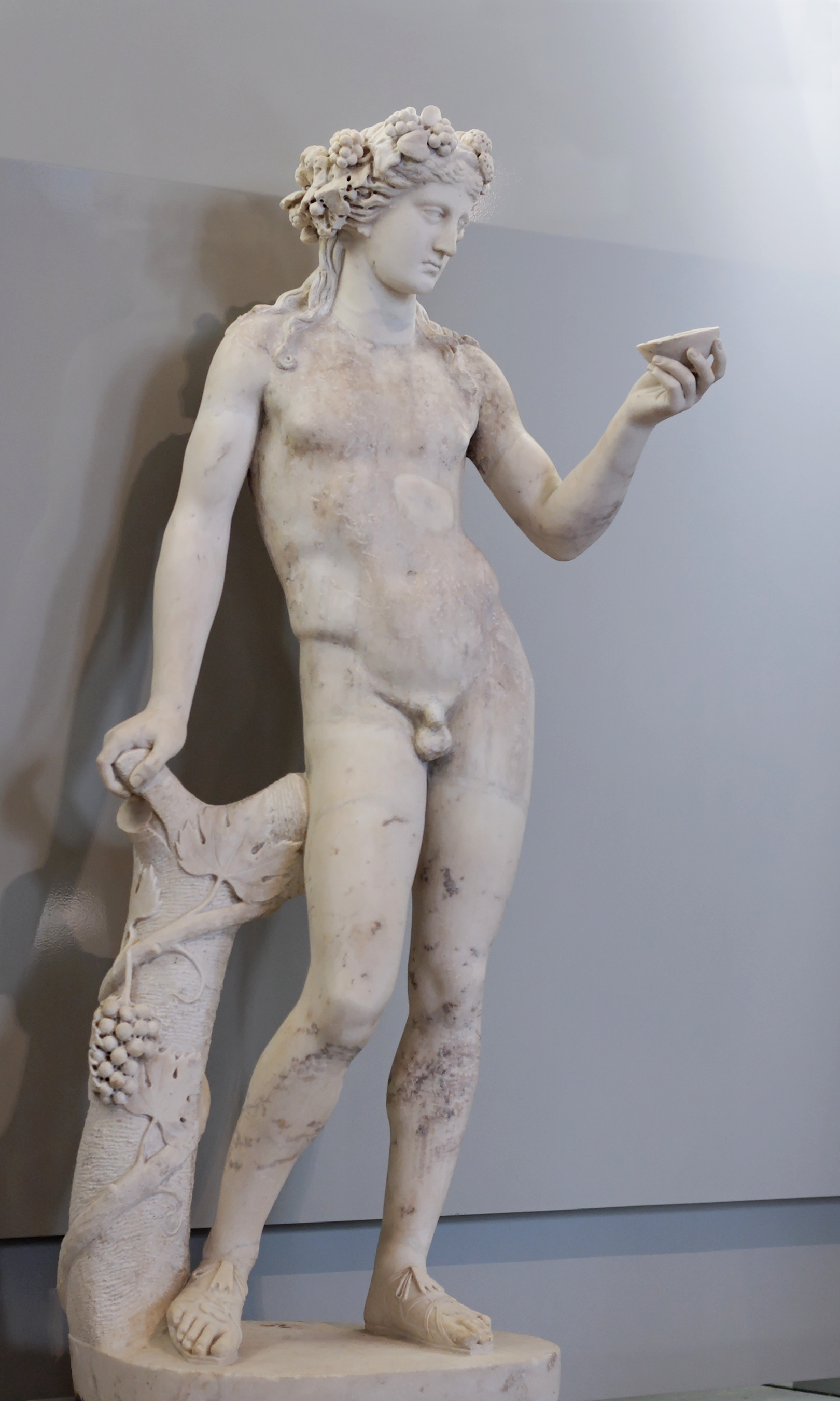 Statue of Dionysus. Marble, 2nd century CE (some restorations in the 17th century).